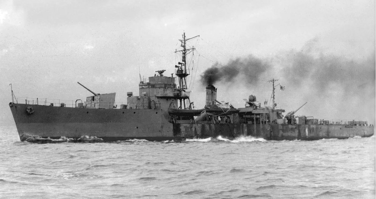 Japanese escort vessel No.2 on trial run at Tokyo Bay.